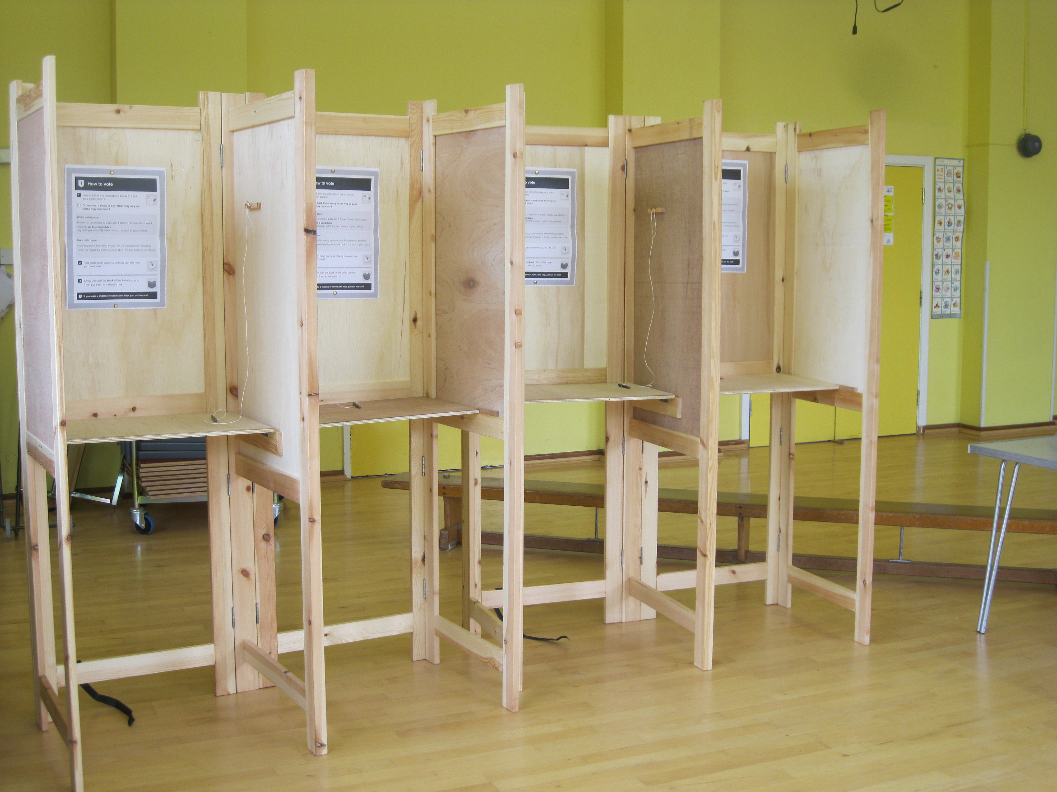 A polling booth in the New Forest for the UK vote change referendum and local government election.